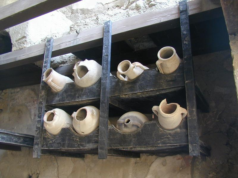 Excavations of Ercolano (Naples): shop of the House of Neptune and Amphitrite